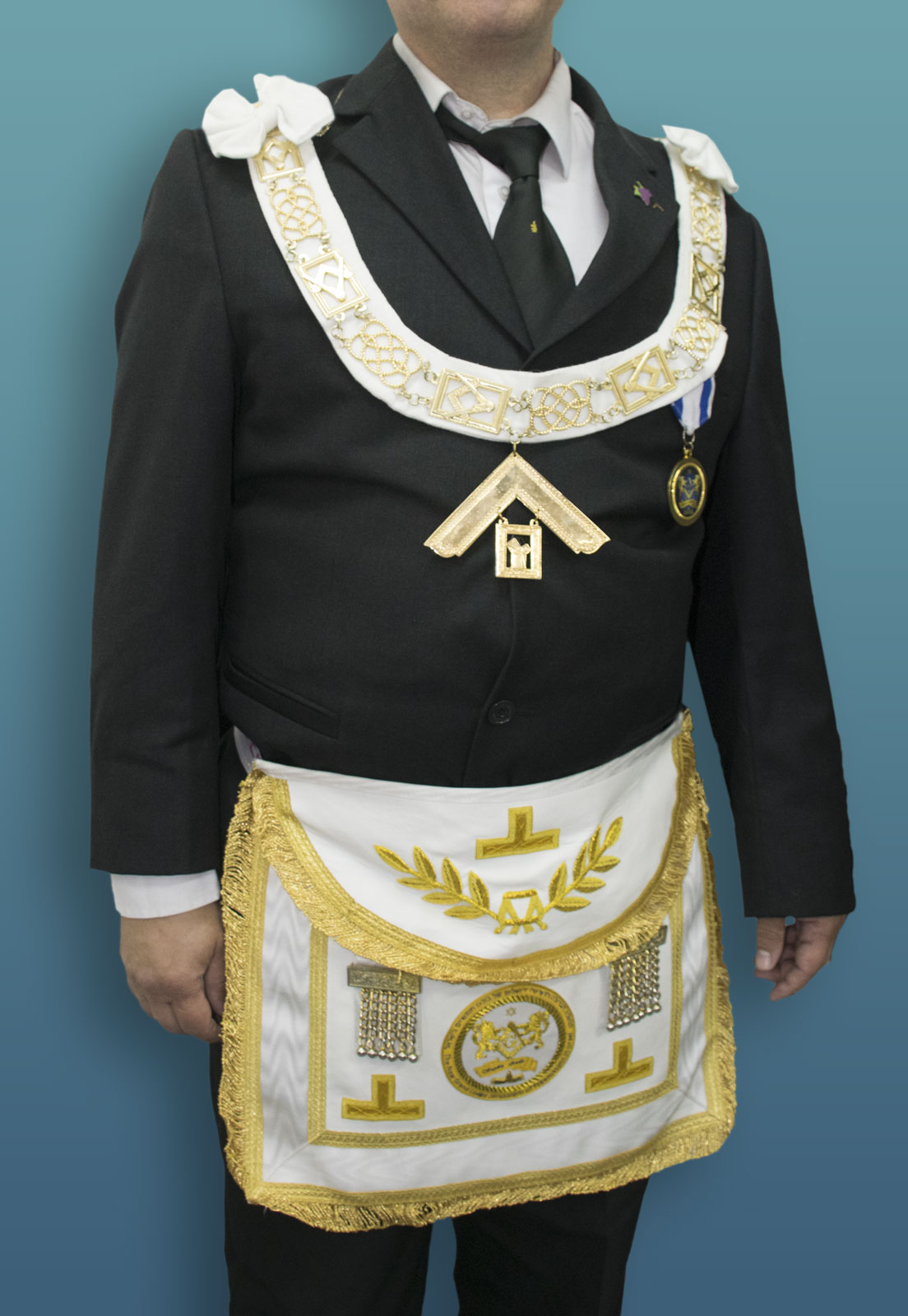 Masonic costume worn by a free mason member of the managing staff of the grand lodge of Jerusalem Israeli